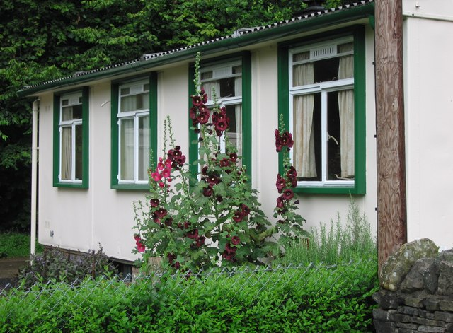 Prefab at the National History Museum, St Fagans - Sain Ffagan